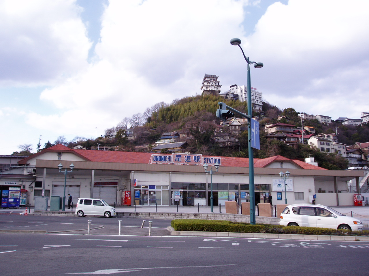 West Japan Railway Sanyō Main Line Onomichi Station Building